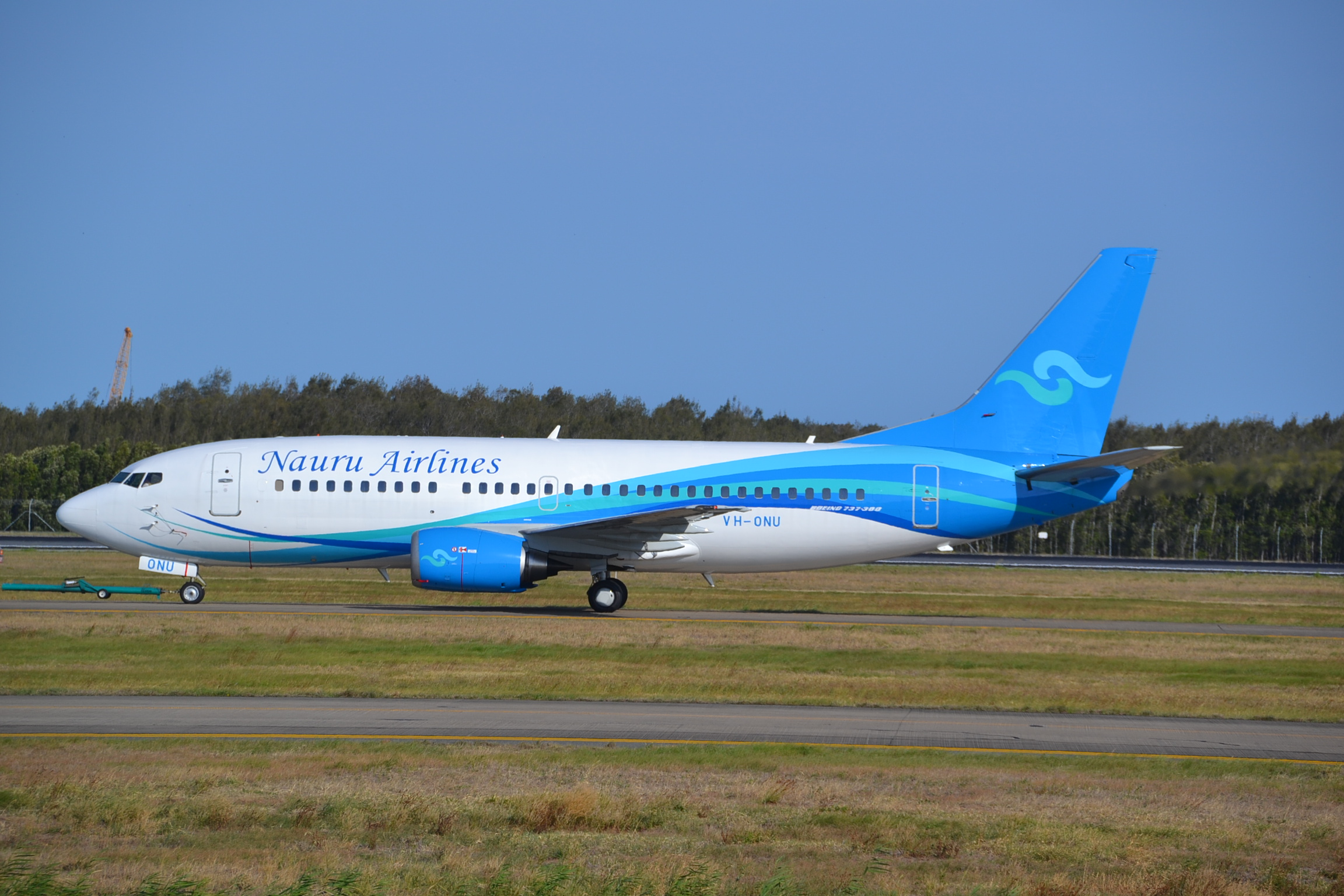 Boeing 737/3 of Nauru Airlines at Brisbane-BNE, QLD, Australia, 14/11/14.